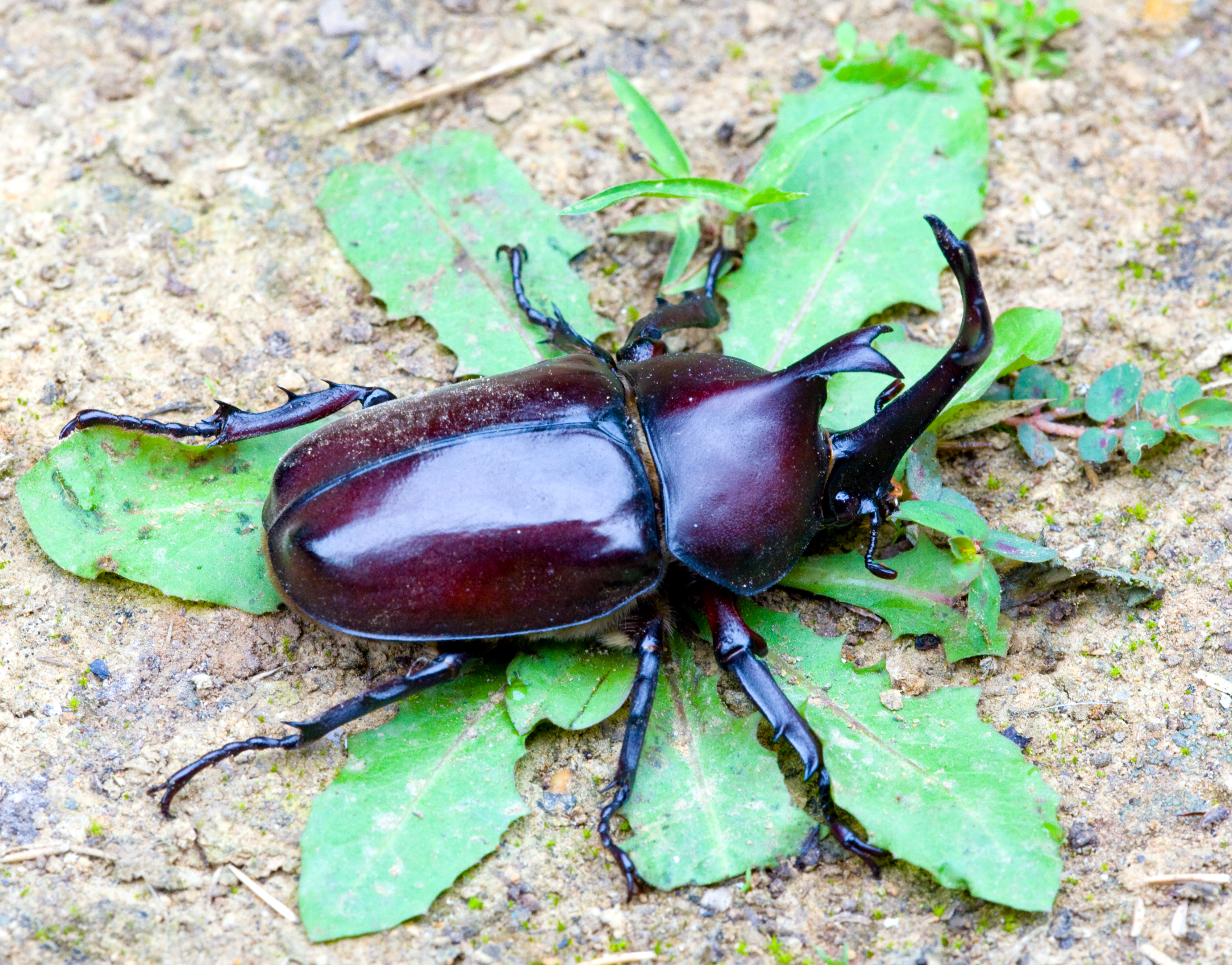 Allomyrina dichotoma Found him in the garden just now